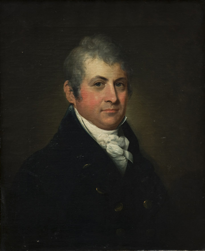 Andrew Belcher (1761-1841), Kingston, Jamaica